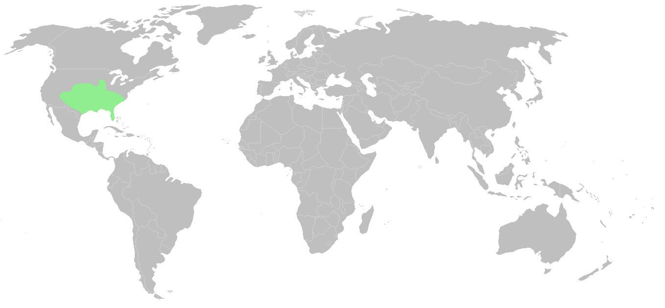 natural world distribution of Cercis canadensis, according to the book "Plant" (2005) ISBN 075660589X